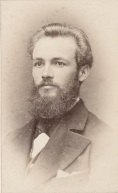 Plate 13 Photograph album of German and Austrian scientists. Mainz: von Reichenau.